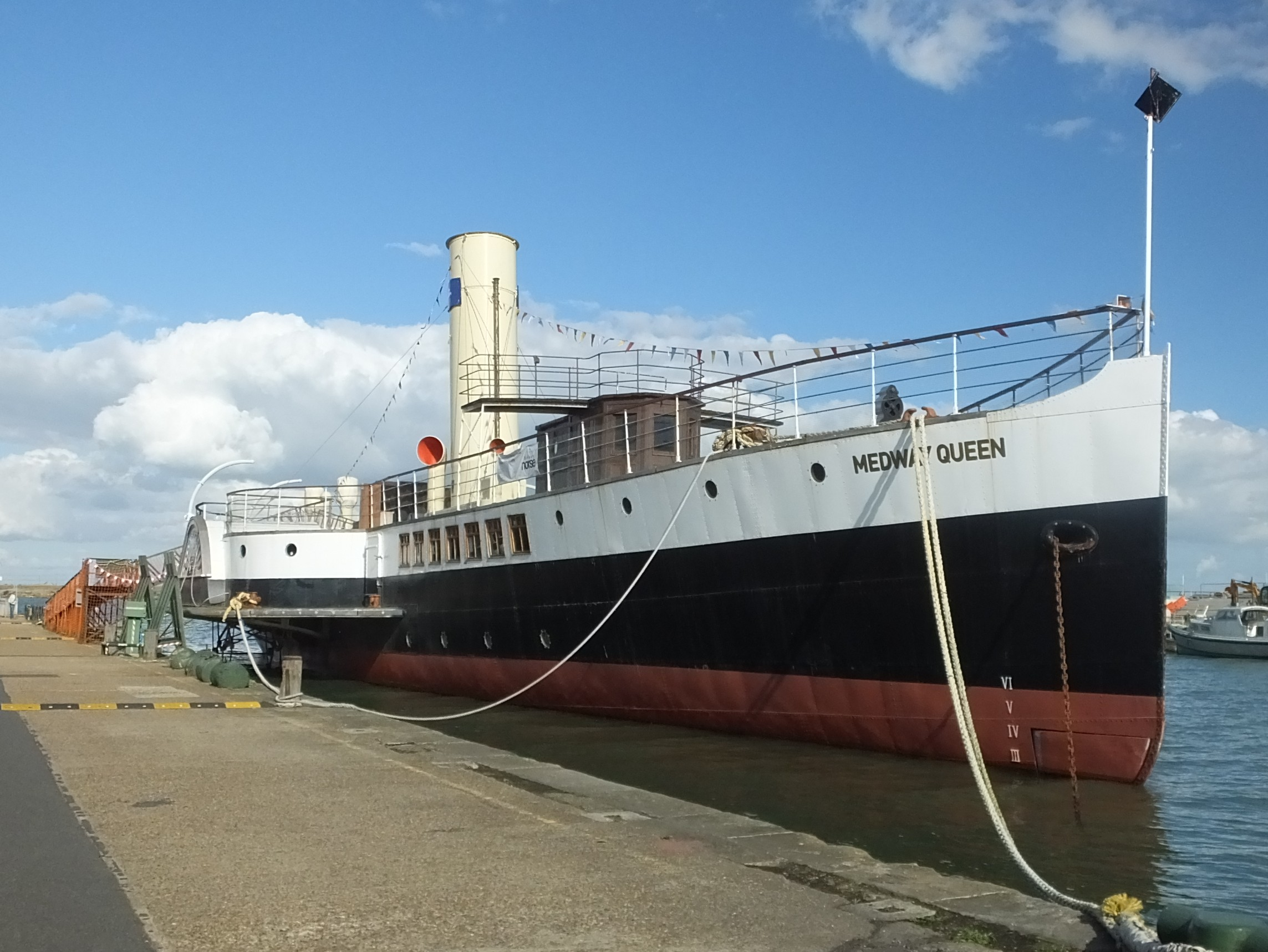 Medway Queen, 2nd October 2016, the day of the memorial service for Marshall Vine who inspired her restoration.